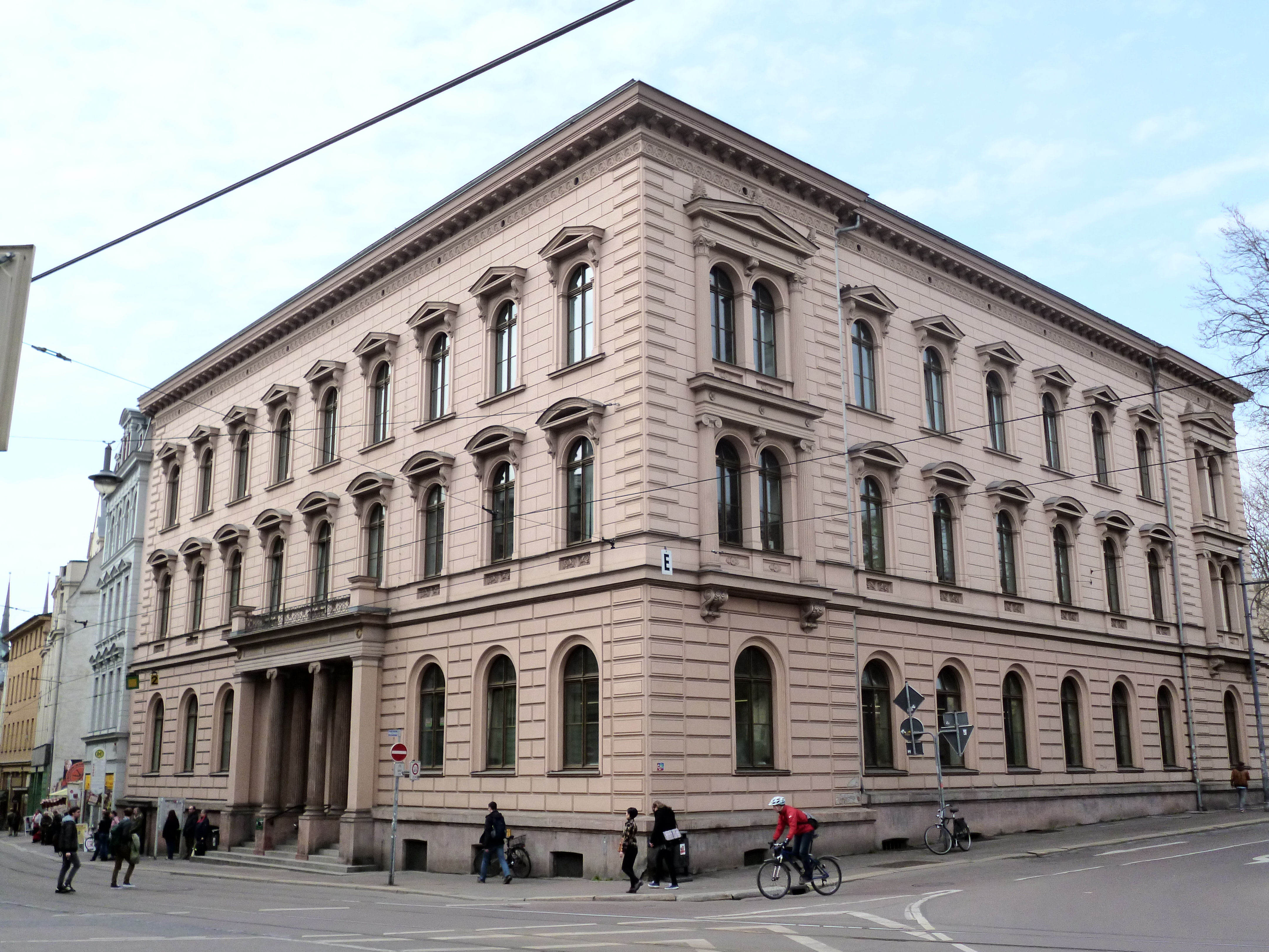 Former banking house Lehmann, Grosse Steinstrasse No. 19, Halle (Saale)